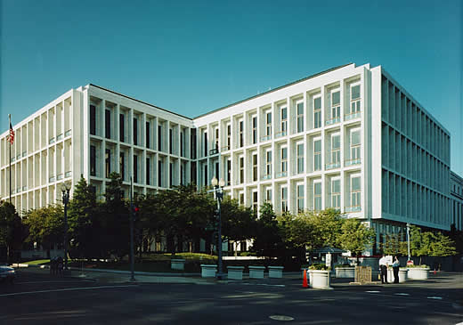 The Hart Senate Office Building. Image taken from the public domain Architect of the Capitol website (